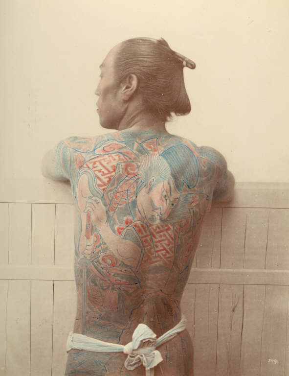 24 x 19.5 cm His hair is worn in a chonmage (topknot).